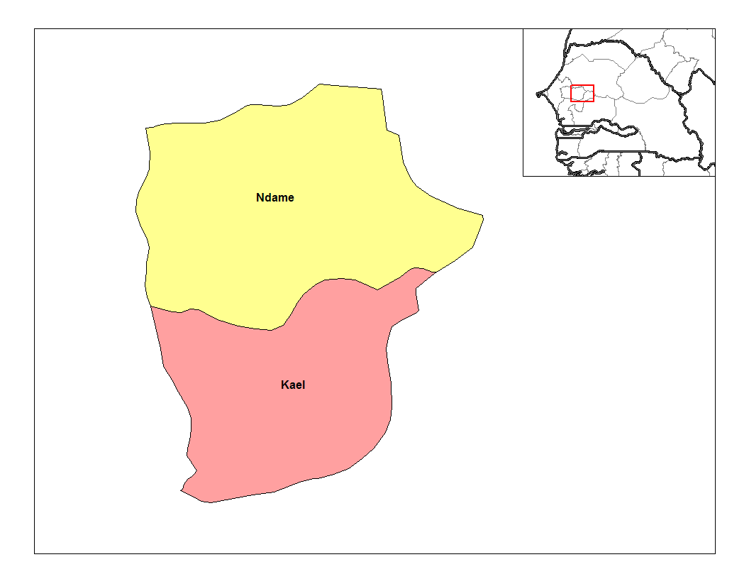 Map of the arrondissements of Mbacke department in Senegal.